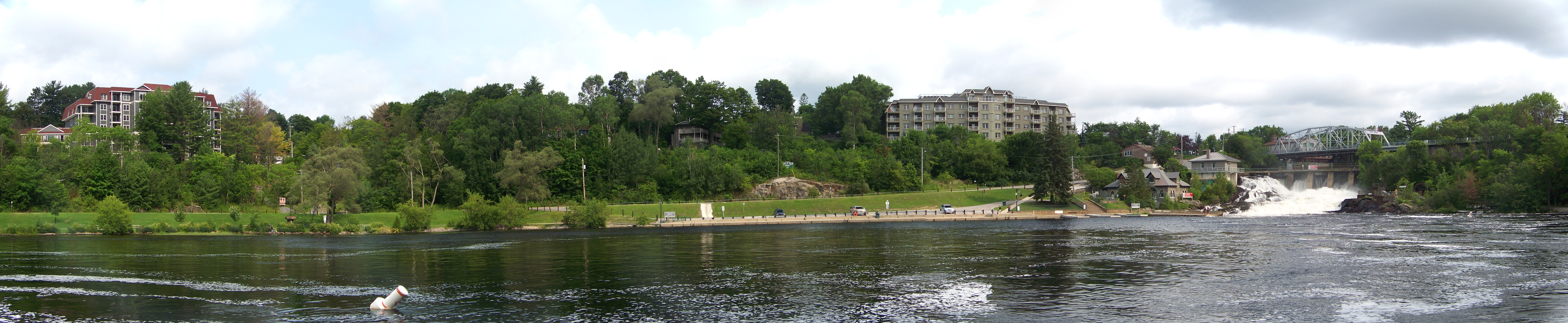 Panorama of the Muskoka River in Bracebridge, Ontario.